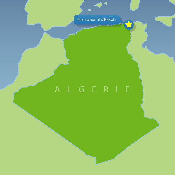 Map of National parks of Algeria, Kala National park